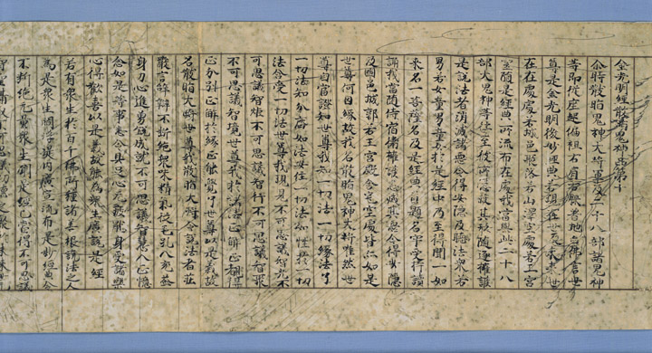 Konkōmyōkyō Sutra (白描絵料紙墨書金光明経, hakubyōeryōshi bokusho konkōmyōkyō) vol. 3. Sutra scroll decorated with line under drawings possibly showing the Tale of Genji or "Parting at dawn" (Ariake no wakare). Together with the Rishukyō sutra (National Treasure) this work is part of the four volume Konkōmyōkyō Sutra. Volumes 2 and 4 only exist in fragments. Handscroll, 25.0 cm × 827.0 cm (9.8 in × 325.6 in), color on paper, hakubyō-style (白描). Located at the Kyoto National Museum, Kyoto, Japan. The set scroll has been designated as National Treasure of Japan in the category paintings.